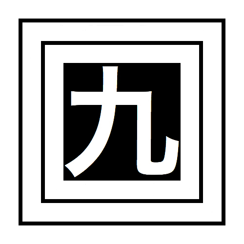 Japanese family crest "Mimasu no naka ni Ku-no-ji", three volume measuring boxes (masu) stacked, carrying a kanji "九" (ku or kyū, nine) in the center